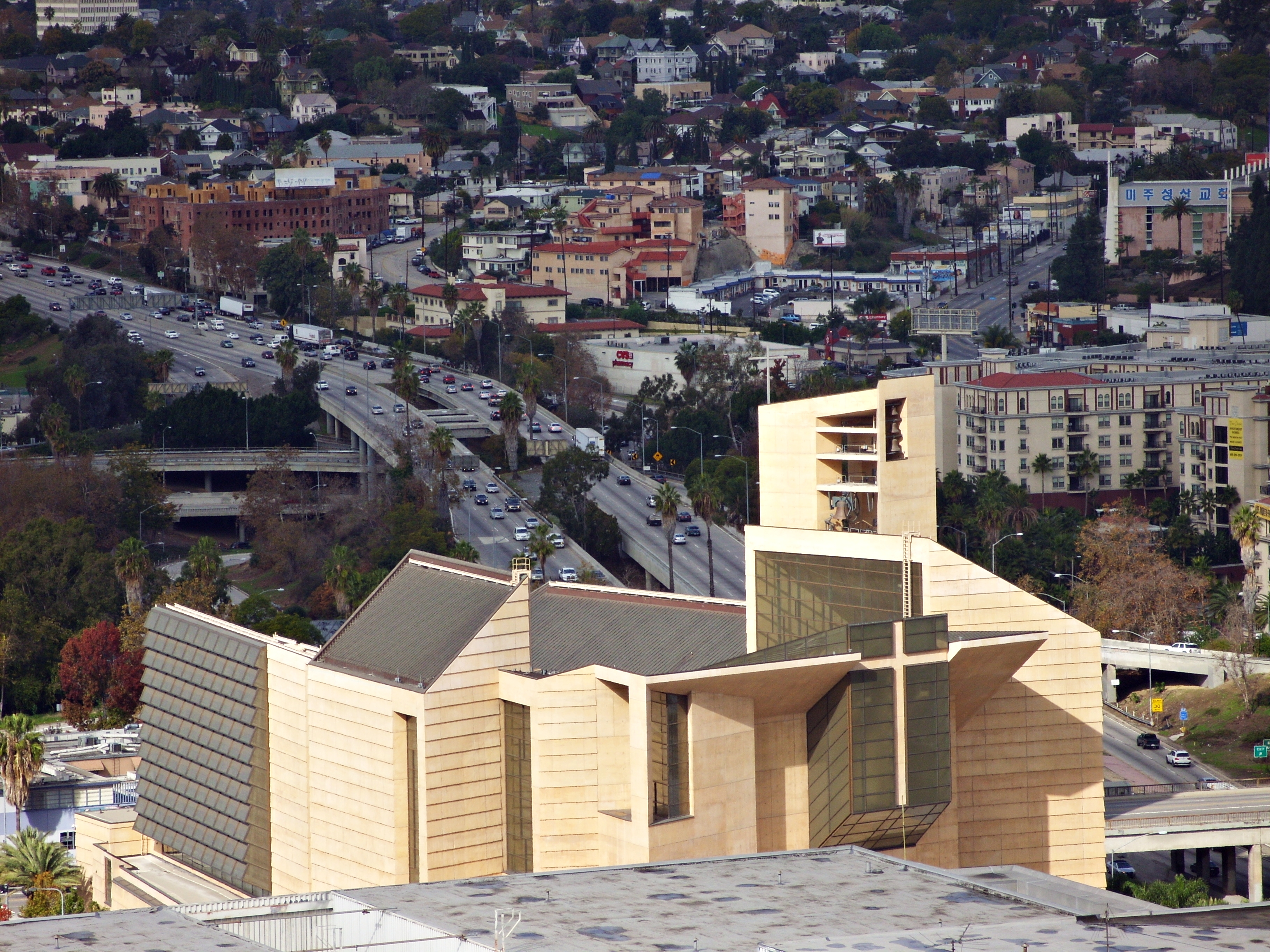 Cathedral of Our Lady of the Angels — as seen from City Hall in Downtown Los Angeles, California, U.S. U.S. Route 101—Hollywood Freeway in background.